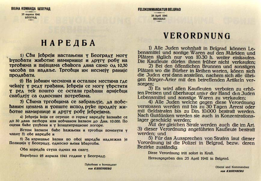 Order against Jews of the German military command on 25 April 1941 in Belgrade.